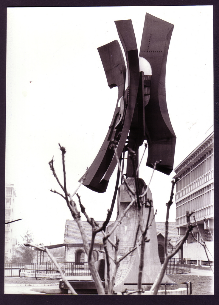 Monument to the Justice of Saluzzo